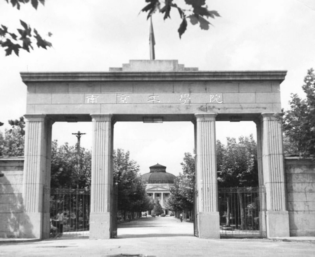 South Gate of Nanjing Institute of Technology, Nanjing, 1950s